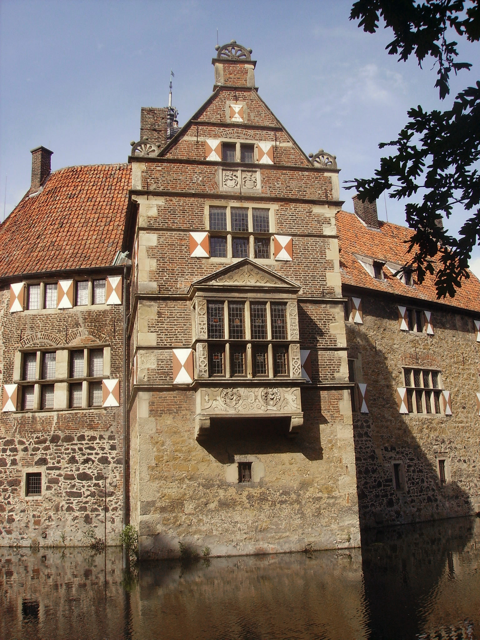 Vischering Castle, Lüdinghausen